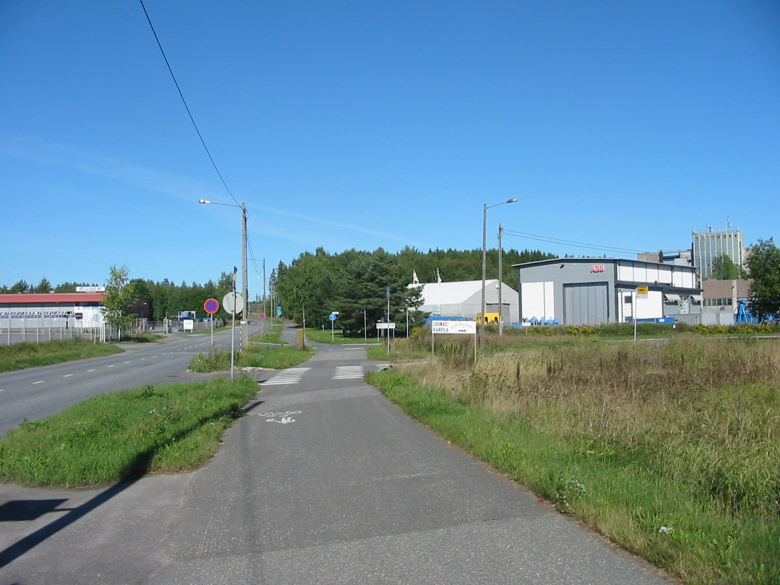 Urusvuori industrial area in Turku, Finland